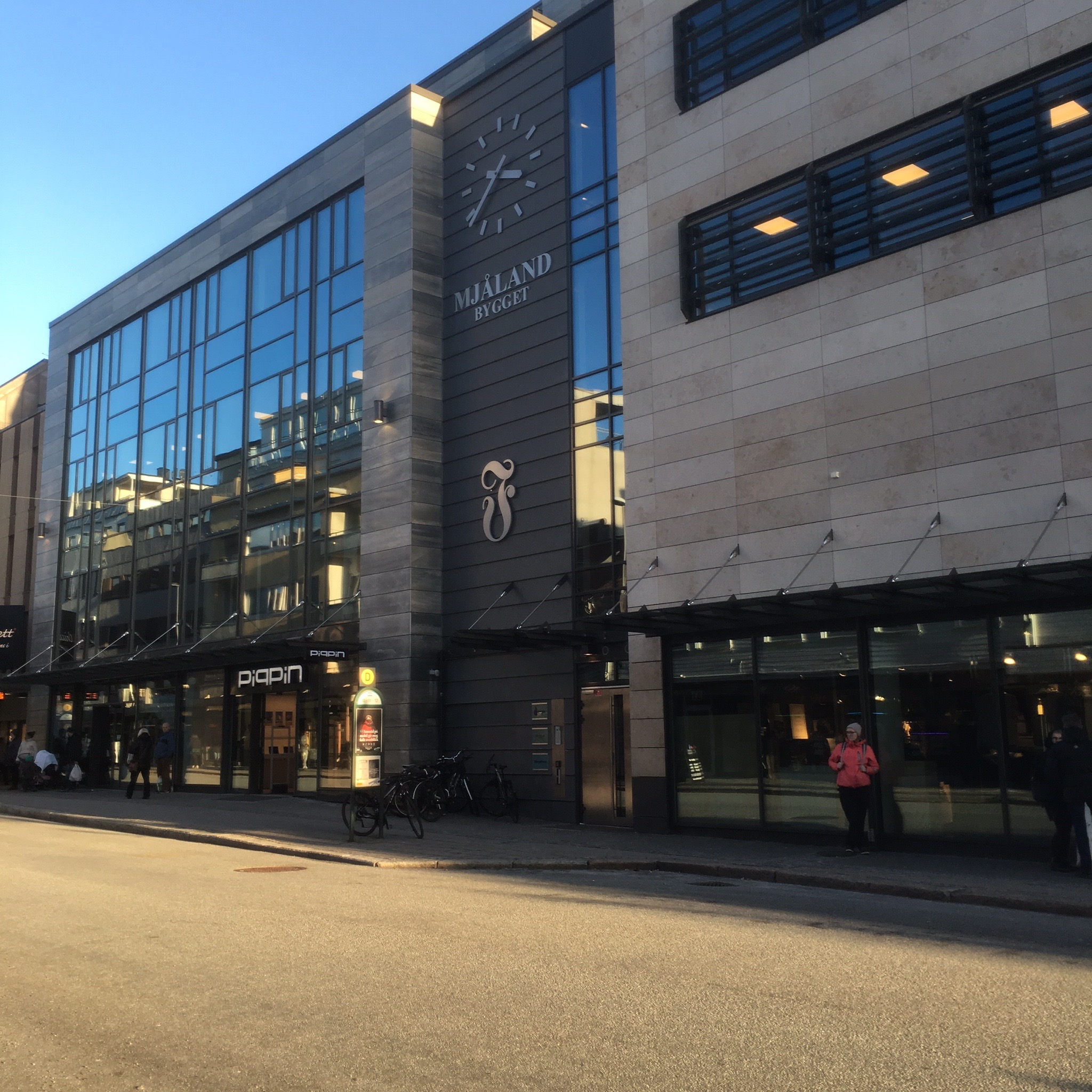 Fædrelandsvennen Office, Kristiansand